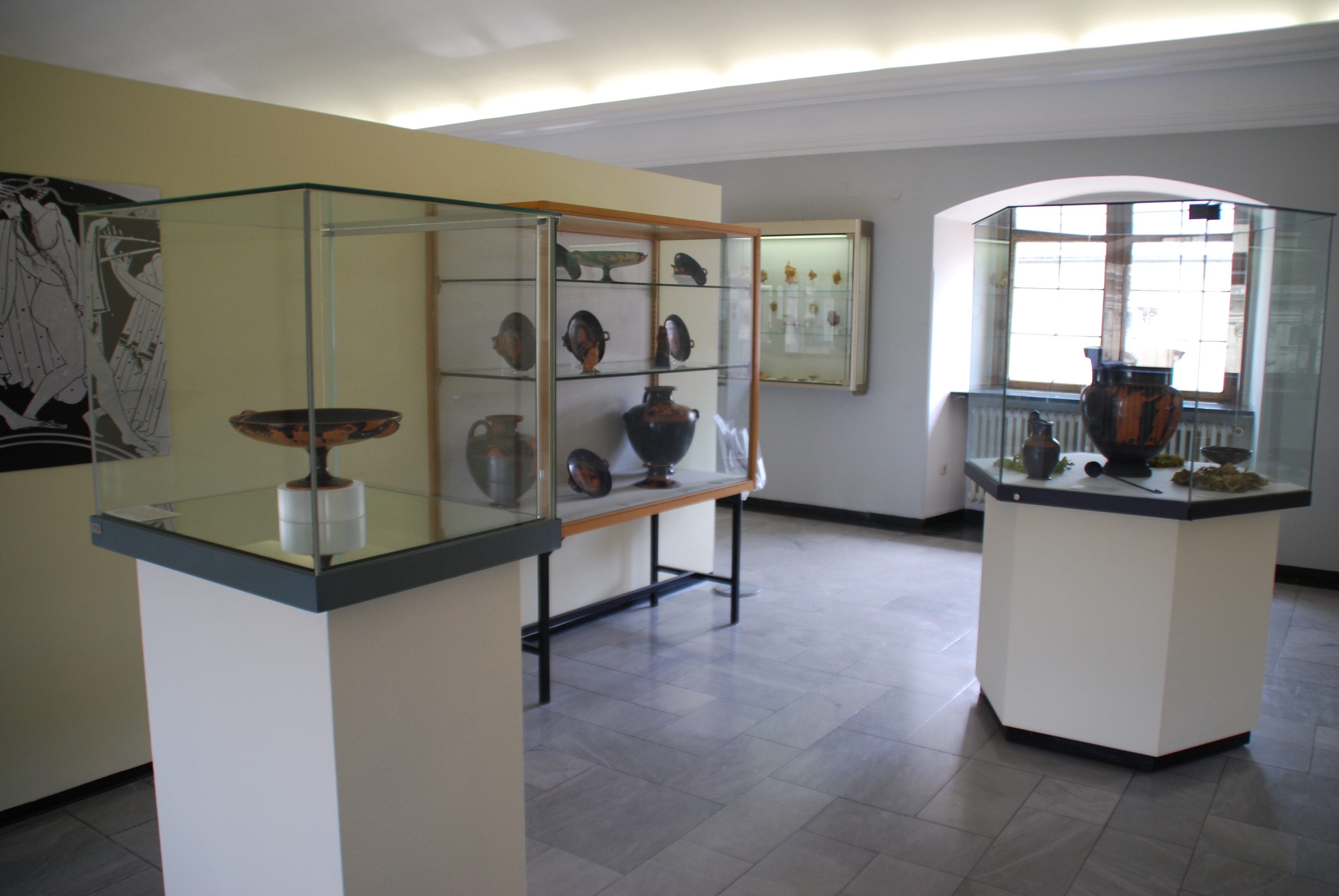 Uploaded Raw material, everybody can work on Names, Categories, Descriptions and so on.. - pictures of descriptions should be deleted after usage.